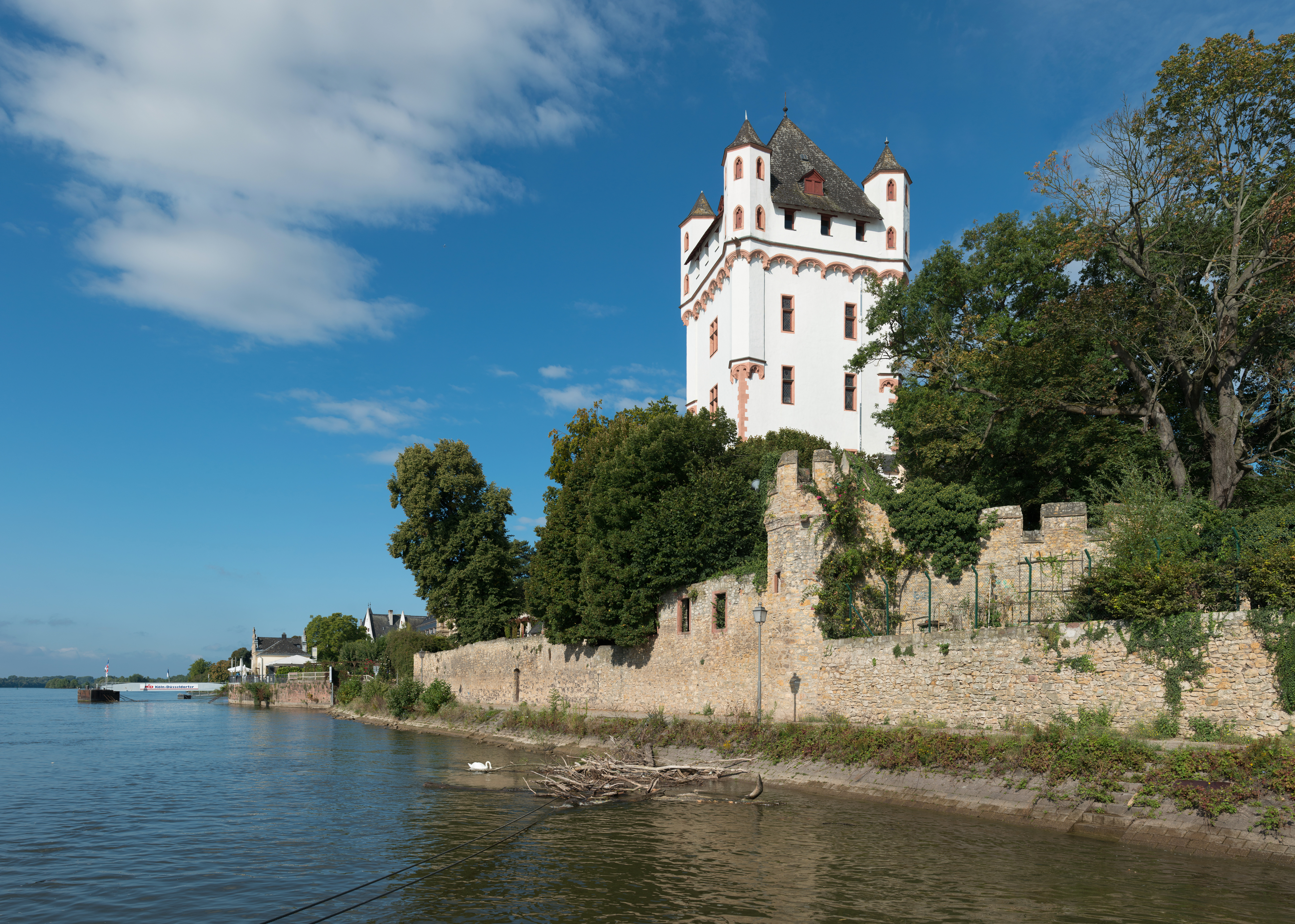 The Burg Eltville as seen from the river Rhein Location: Burgstraße 1, 65343 Eltville am Rhein